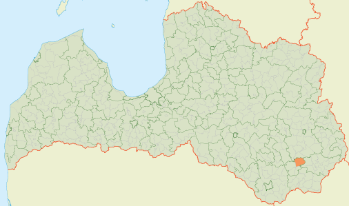 Kastuļina parish location map (Latvia)